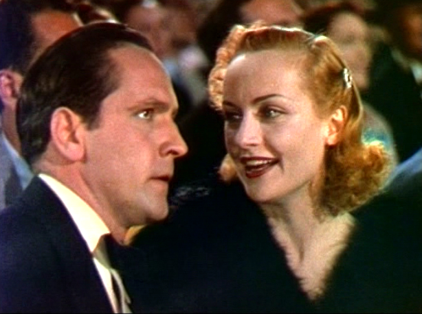 Screenshot of Fredric March and Carole Lombard from the film Nothing Sacred.